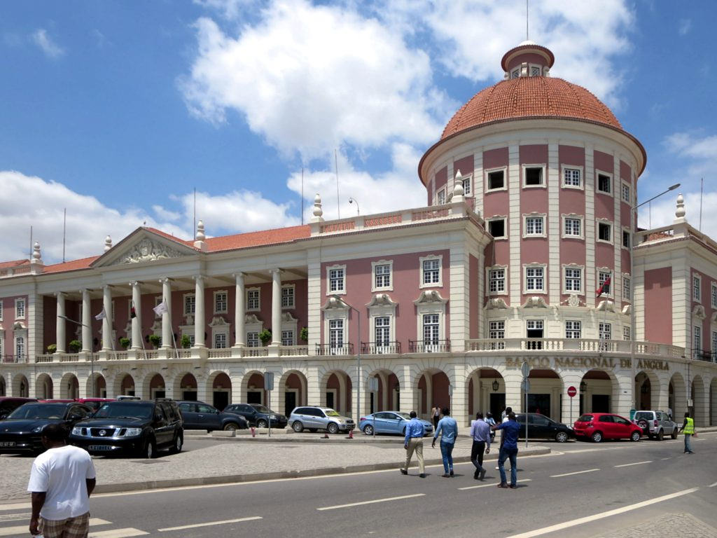 The Banco Nacional de Angola building on the Marginal in Luanda, Angola, dates from 1956.